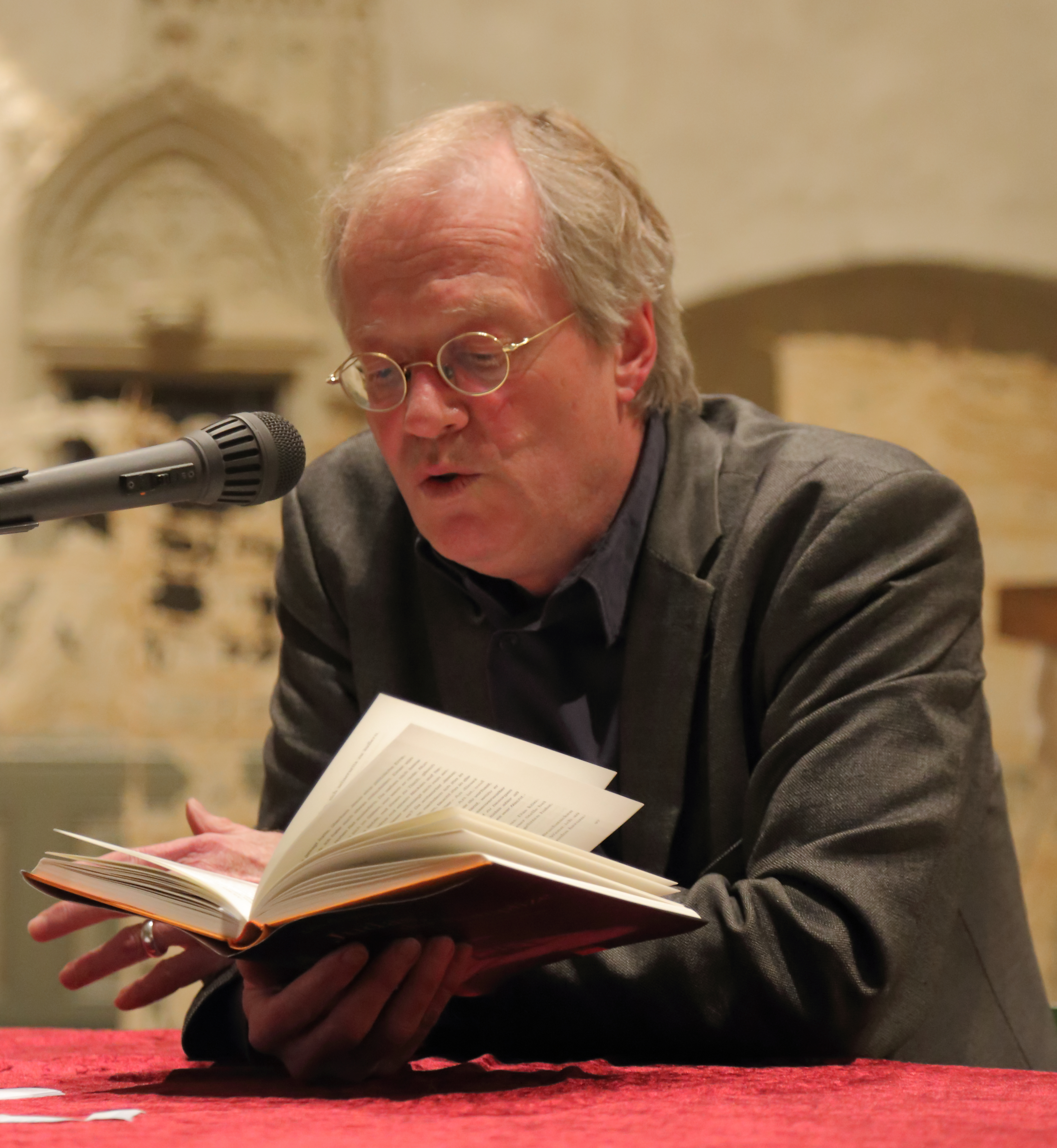 German writer Leo G. Linder reading from his book Judas, der Komplize at the Protestant City Church (Evangelische Stadtkirche) in Westerkappeln, Kreis Steinfurt, North Rhine-Westphalia, Germany.